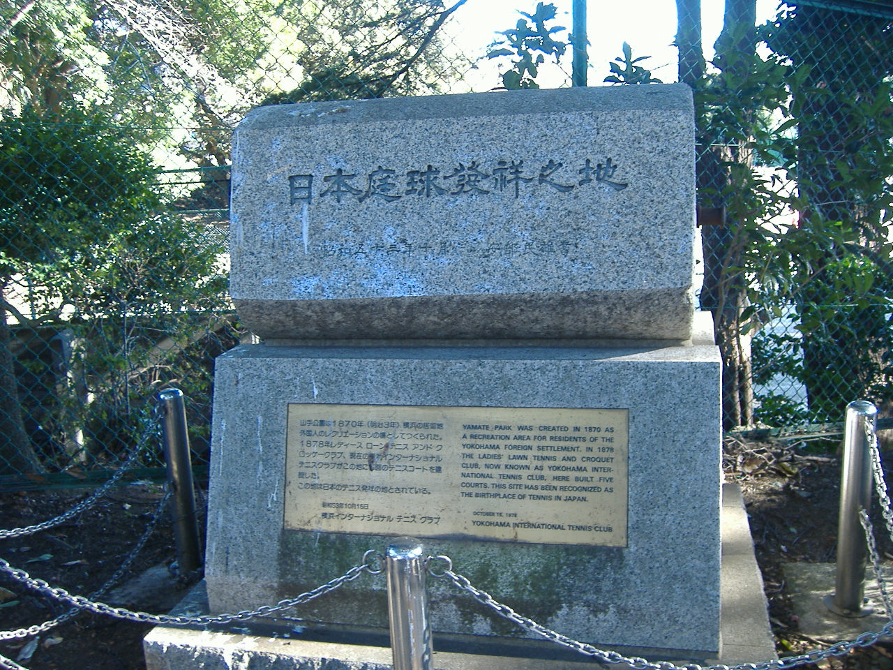 Memorial "The Birthplace of Tennis in Japan" (Yokohama, Japan)